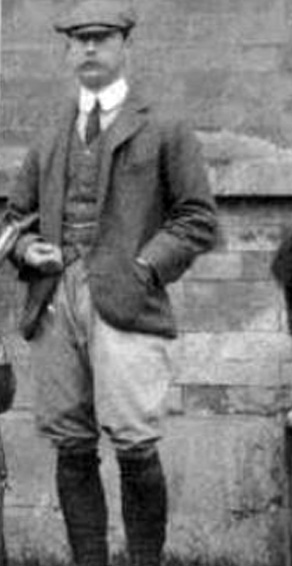 Richard Norman Pochin (later Winstanley) 1902 owner of Braunstone Hall, Leicester